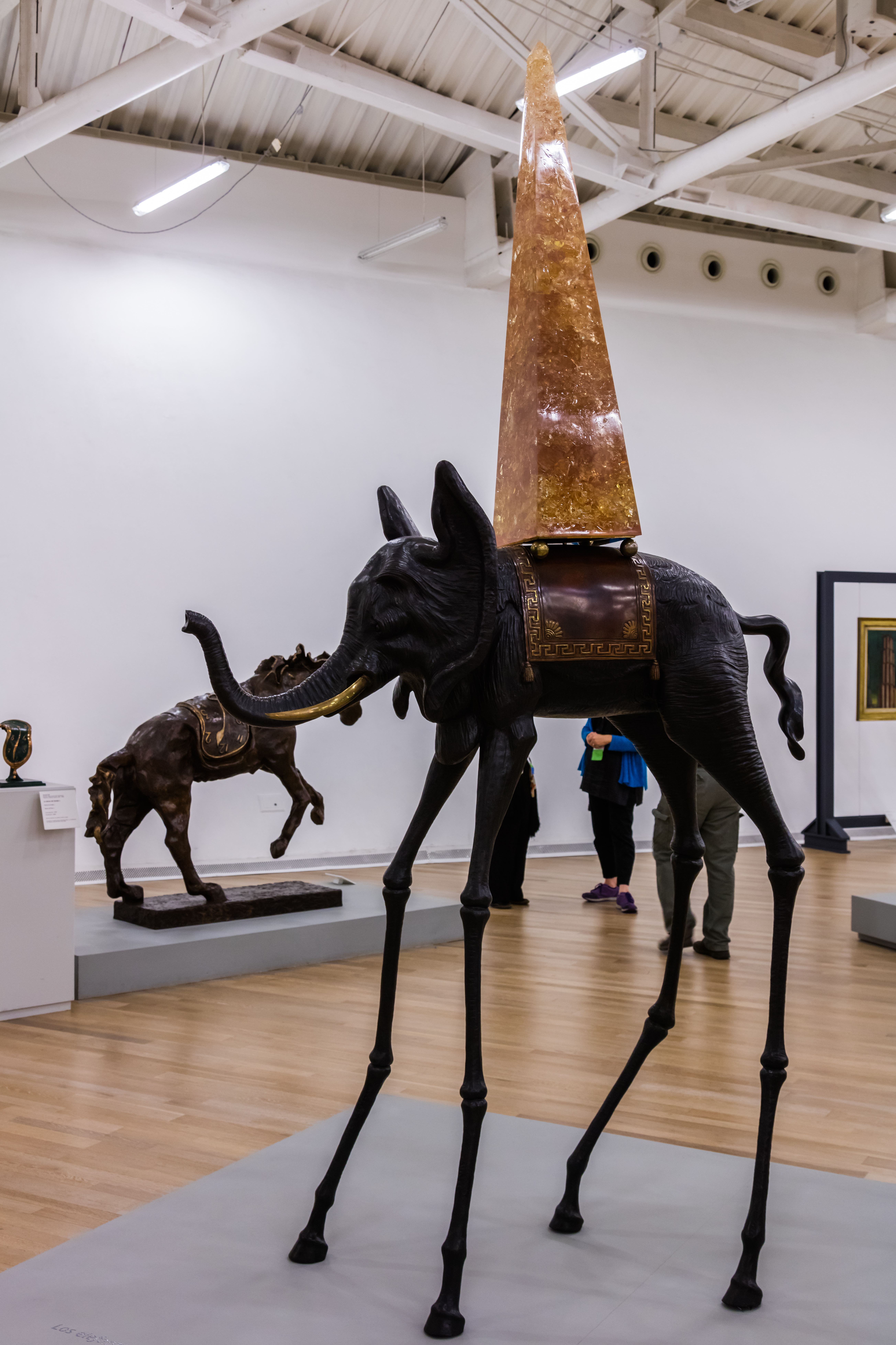 Espace Elephant (Salvador Dalí), Soumaya museum, Mexico City, Mexico